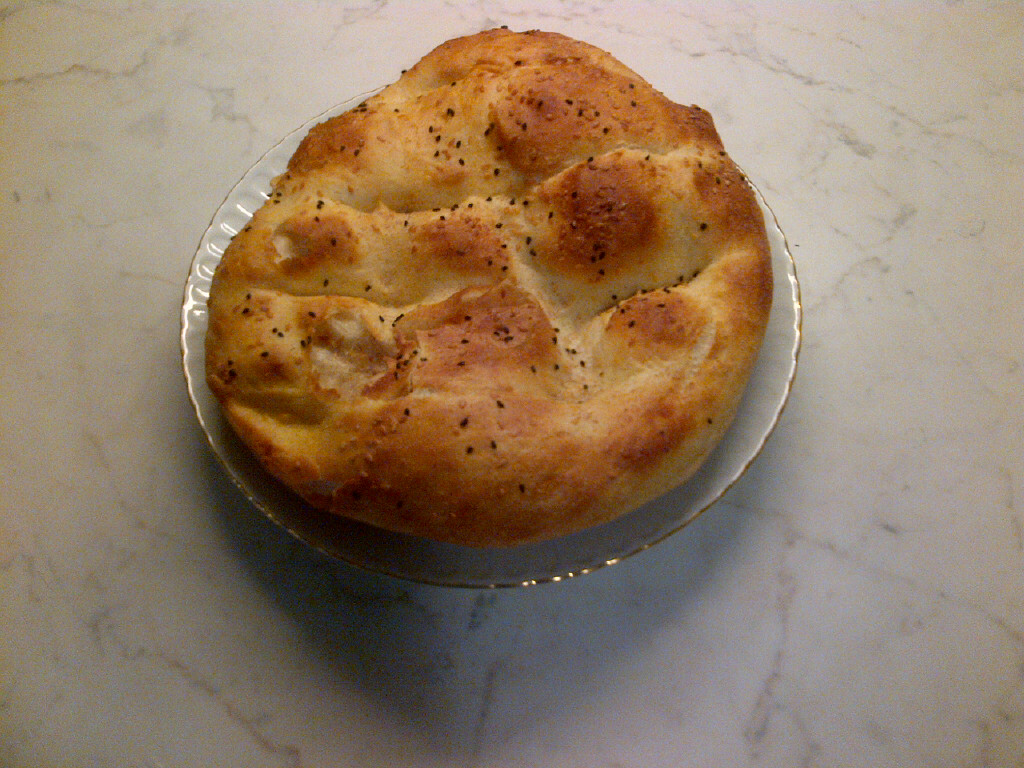 "Ramazan pidesi" is a traditional Turkish pide (flatbread) for the month of Ramadan. It may be simple as in the picture or covered with egg yolk and sesami seeds (and/or "çöreotu" seeds).